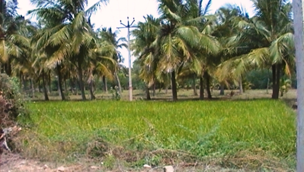 agricultural field in azad road